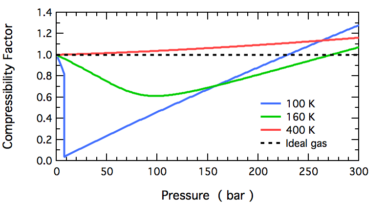 Overview of the temperature and pressure dependence of the compressibility factor for N2. Created using data from the NIST Chemistry WebBook